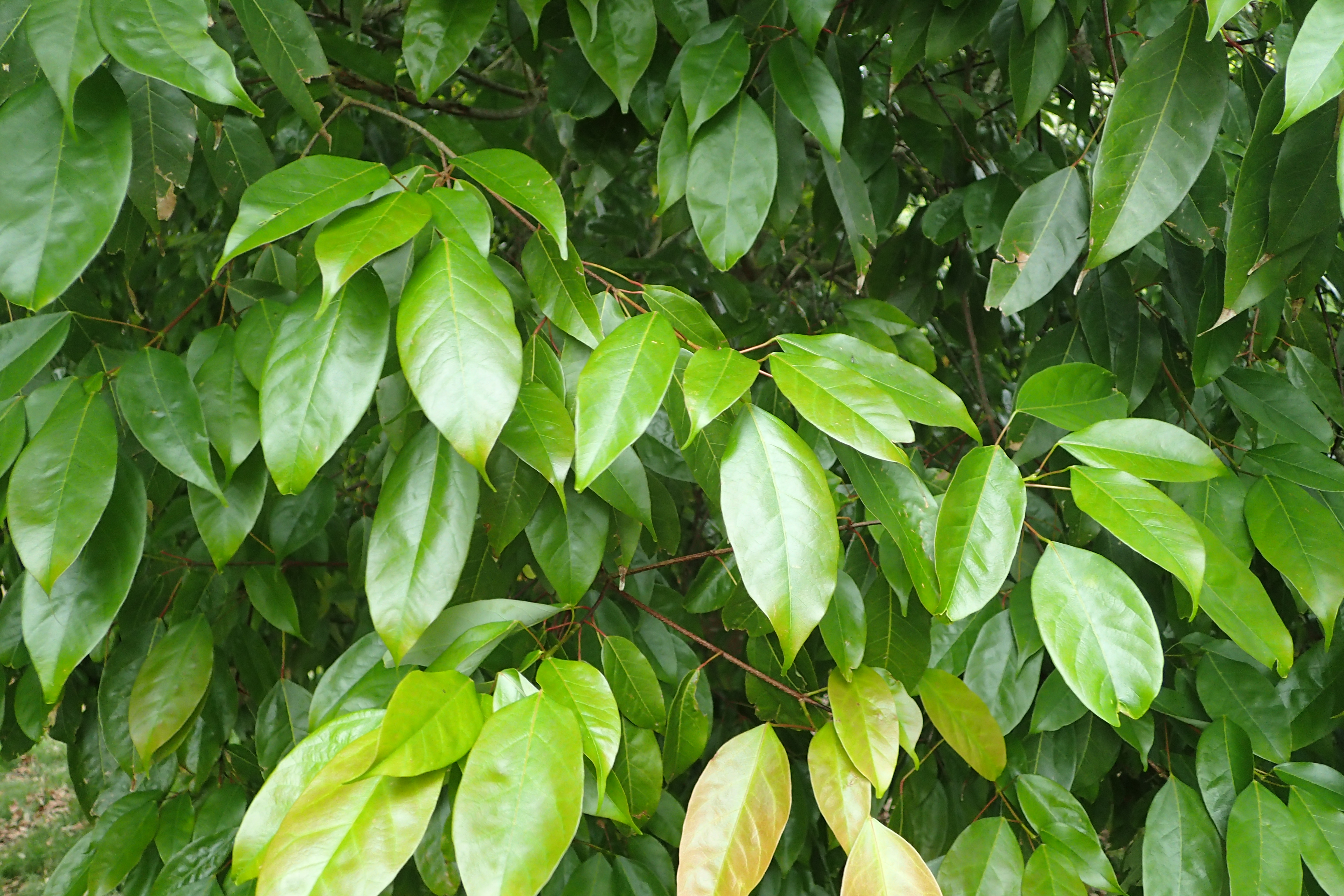 Acer oblongum in Hackfalls Arboretum, Hawkes's Bay (NZ)